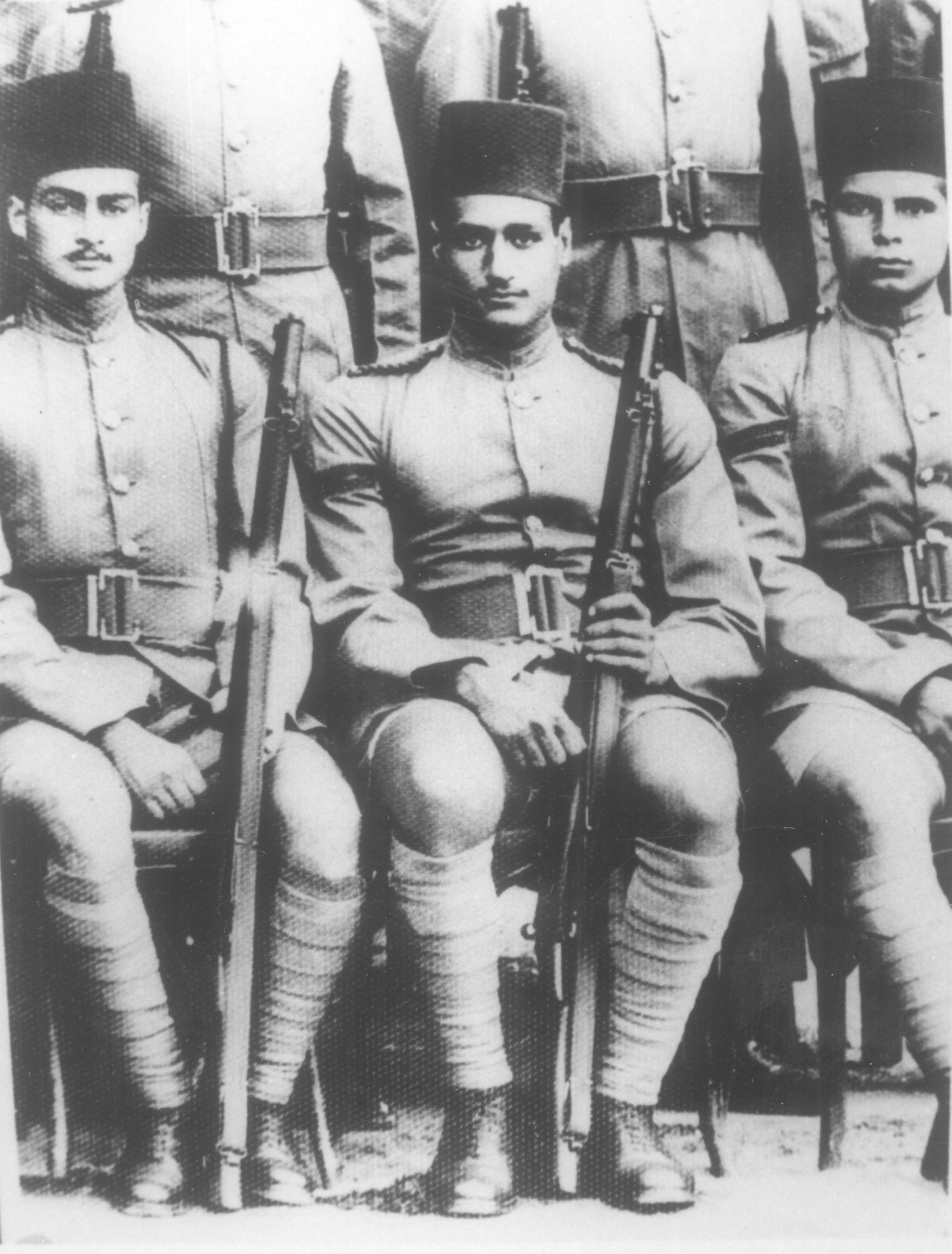 Second Liutenant Gamal Abdel Nasser with fellow members of his army unit in Egypt before being posted to Kharoum, Sudan. The photo has been cropped and its levels have been altered from its source.